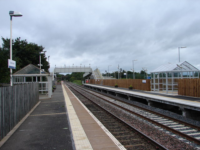 Gretna Green railway station Original description: Gretna Green Station (View East) View east on Gretna Station after completion of the doubling of the track between Gretna and Annan, September 2008. The new down platform and footbridge were completed at the same time; the slope access bridge is nearing completion. NY3167 : Gretna Green Station (View West)